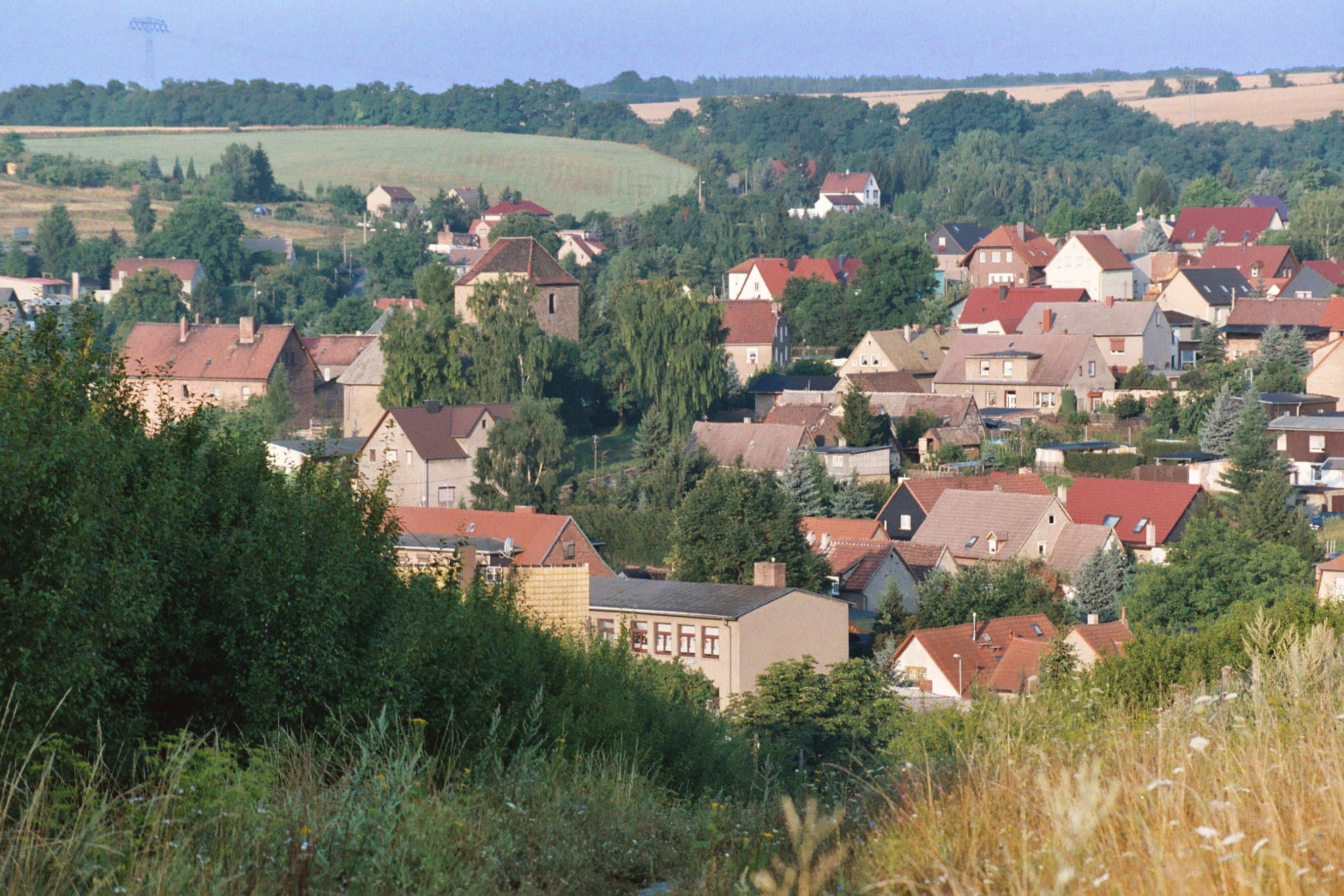 Ahlsdorf, view to the village